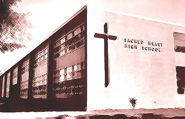 Artistic rendering of Sacred Heart High School, Roseville, Michigan